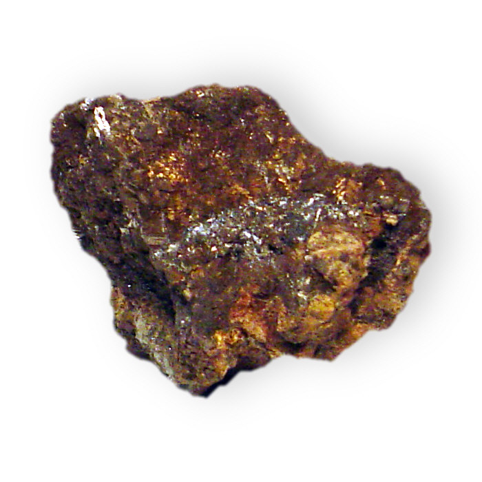 These mineral images are free to use how you wish.